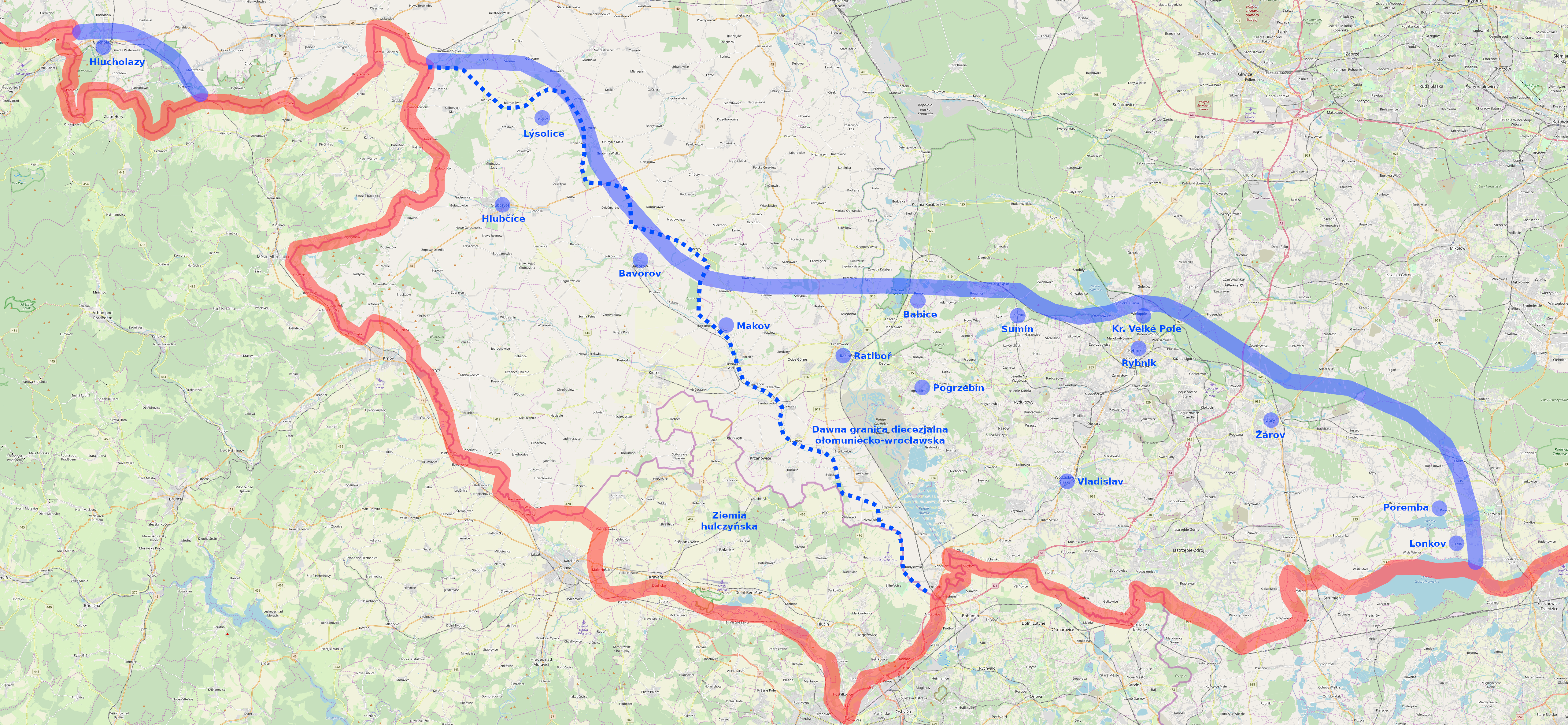 Area of German Silesia claimed by Czechoslovakia at the Paris Peace Conference February 1919 (between the red (former Austrian-German border) and blue (northern extent of the claim) lines) blue dotted line - former border between the moravian and the silesian dioceses. Based on [1]